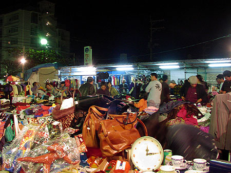 Hamby Night Market